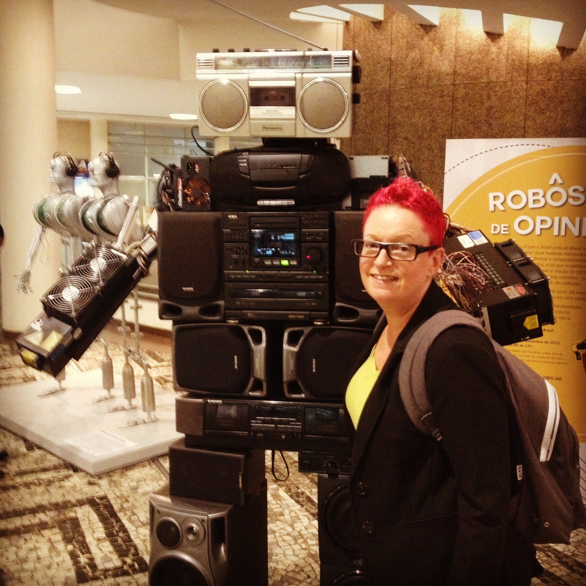 Dr Sue Black visiting Brazil